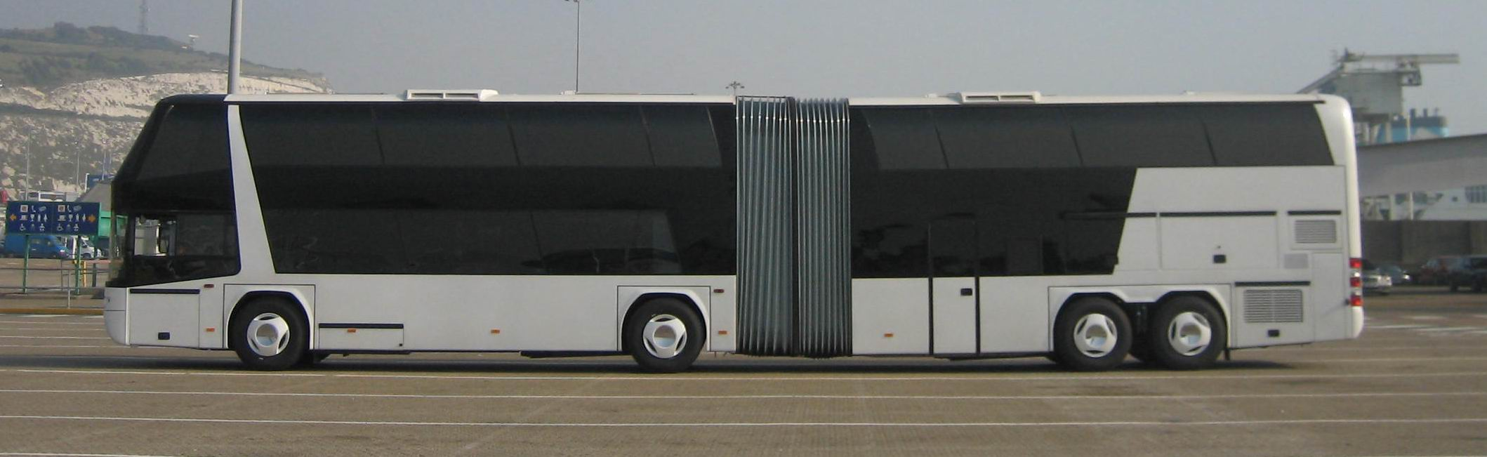 Totally rebuilt, the last constructed 1992 Neoplan Jumbocruiser enters Dover Harbour in October 2006